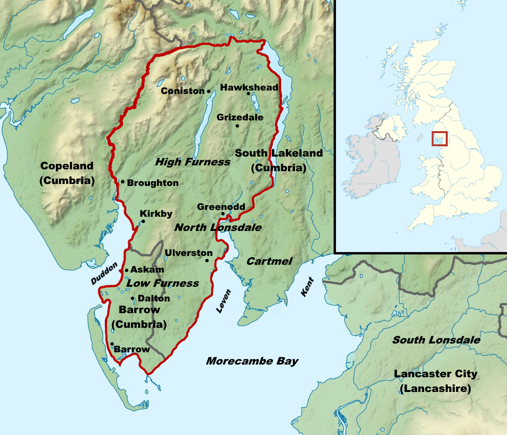 Map of the Furness region in Cumbria (formerly Lancashire).